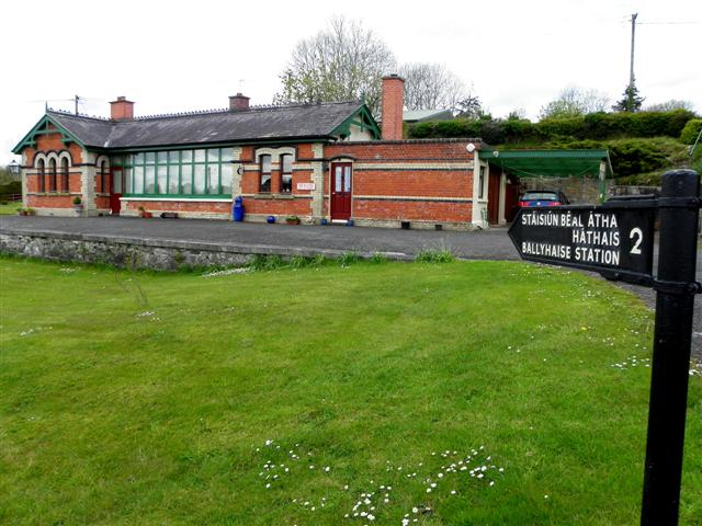 Ballyhaise Railway Station. It is now a dwelling house